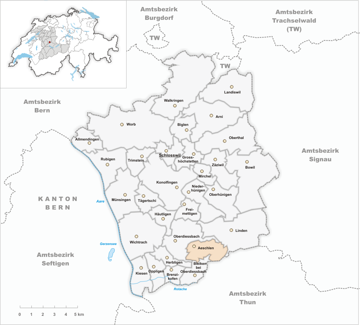 Municipality Aeschlen